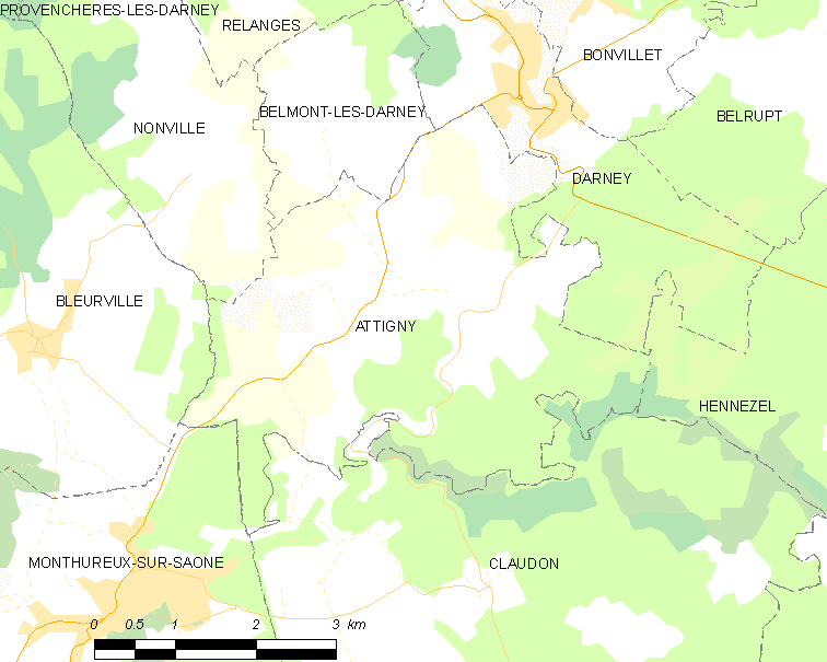 Map of French municipality Attigny